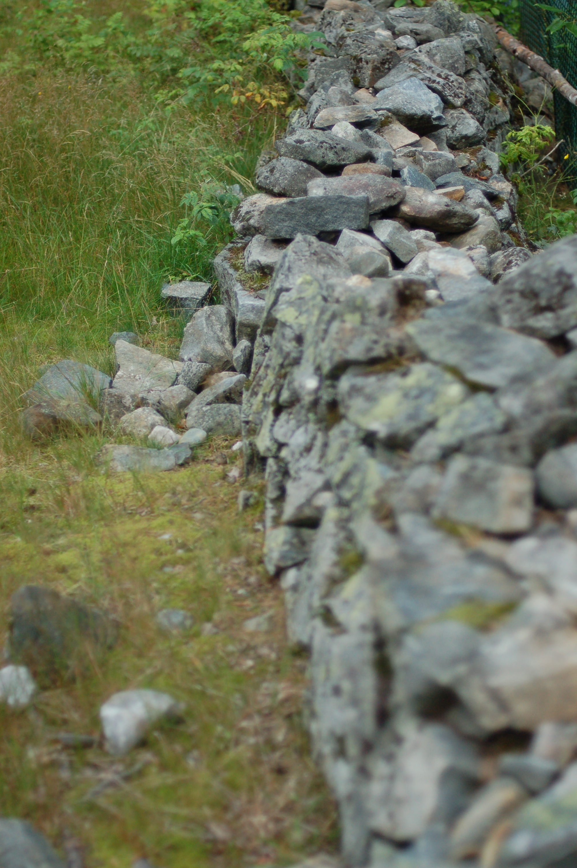 Stone fence on Gamlegrendåsen, Kongsberg, Norway. Photo: Thomas Bjørndahl